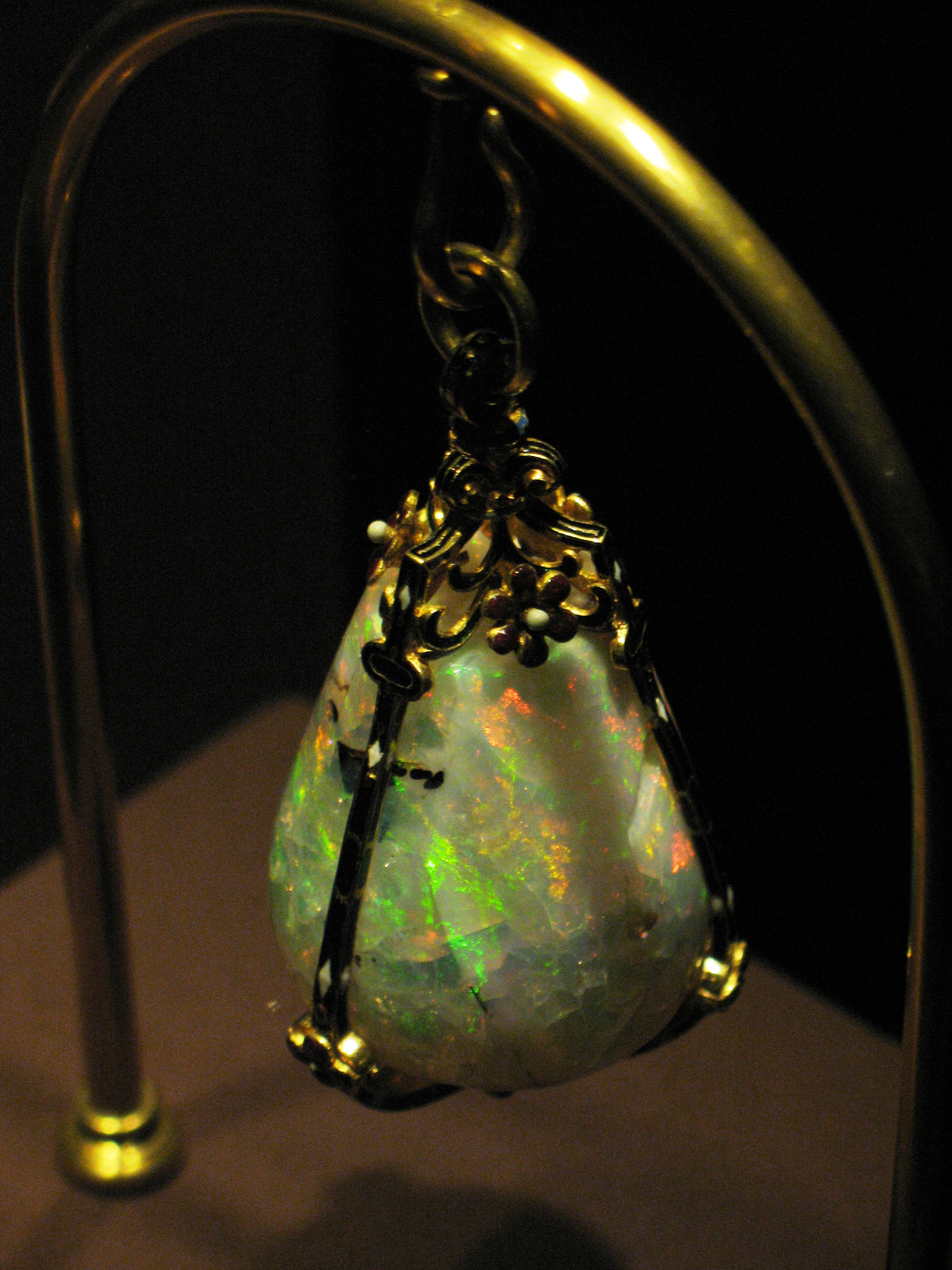 Opal, Imperial Treasury, Vienna, Austria